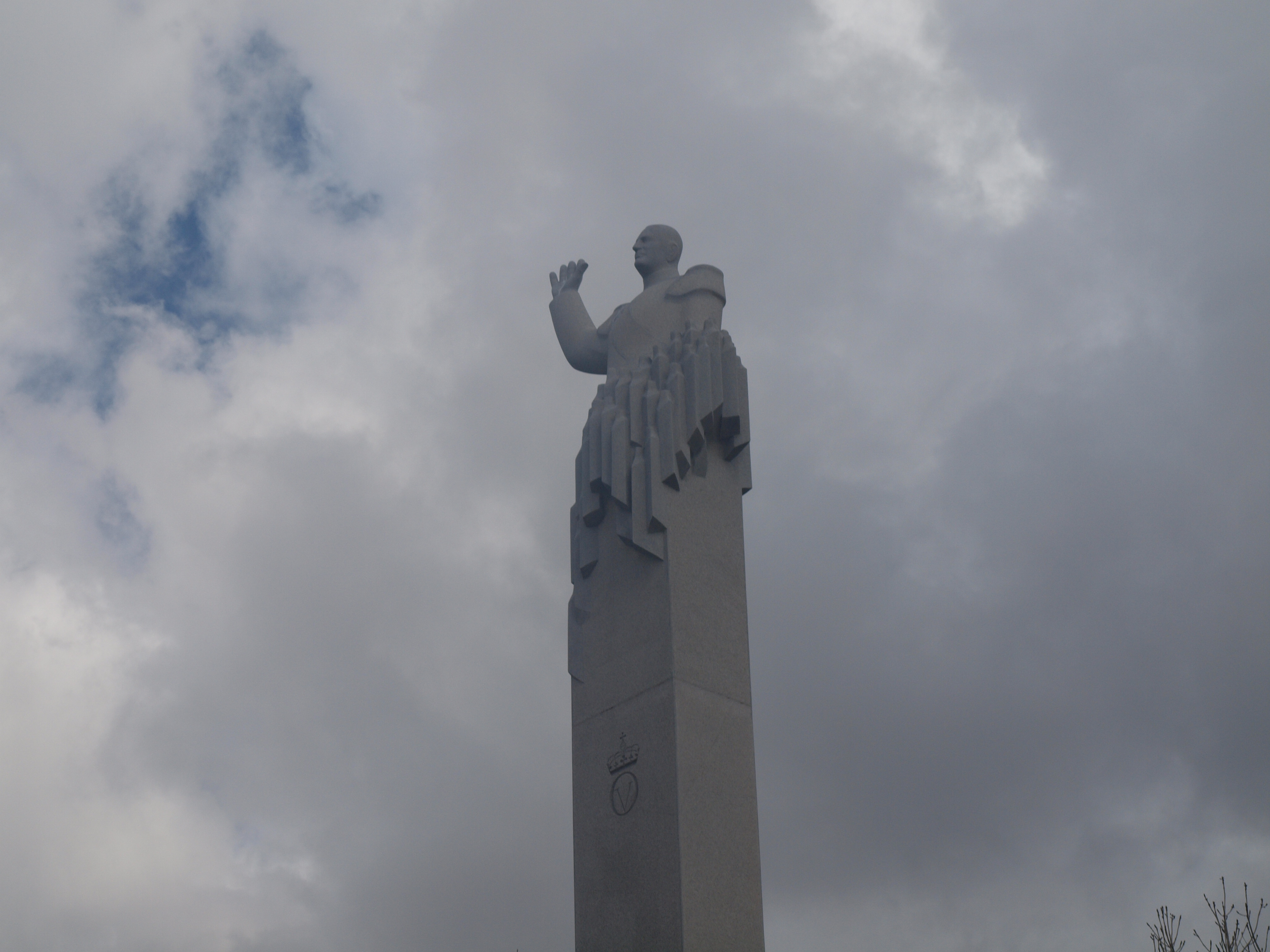 The statue of Kong Olav in Skjerjehamn, Norway